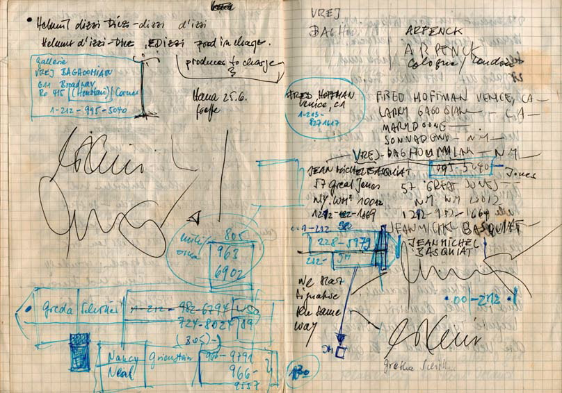 The "Contract of fiction" between Basquiat and Diez